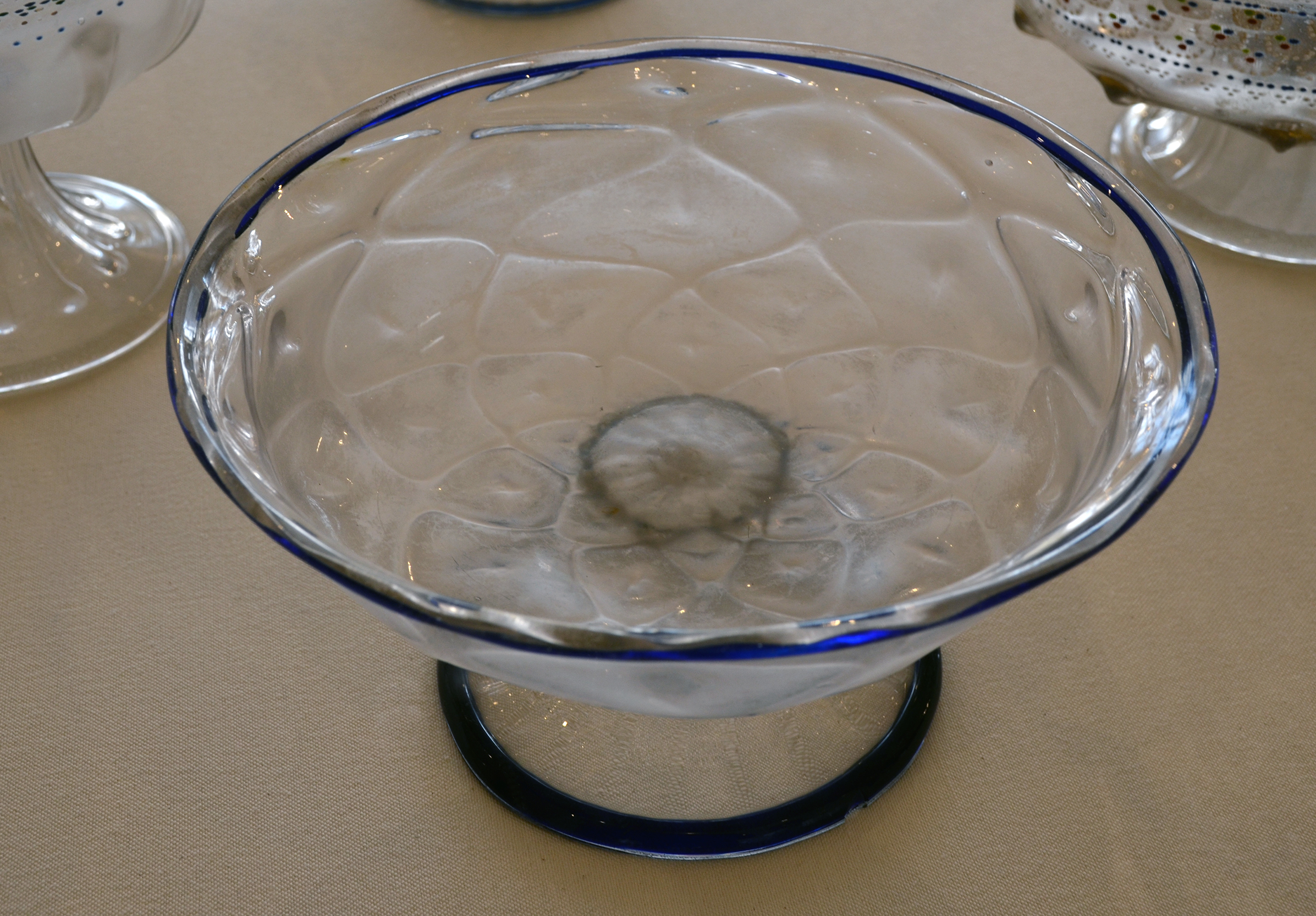 Cup on foot, end of the 15th century or beginning of the 16th century, Venice. Glass Museum in Murano.